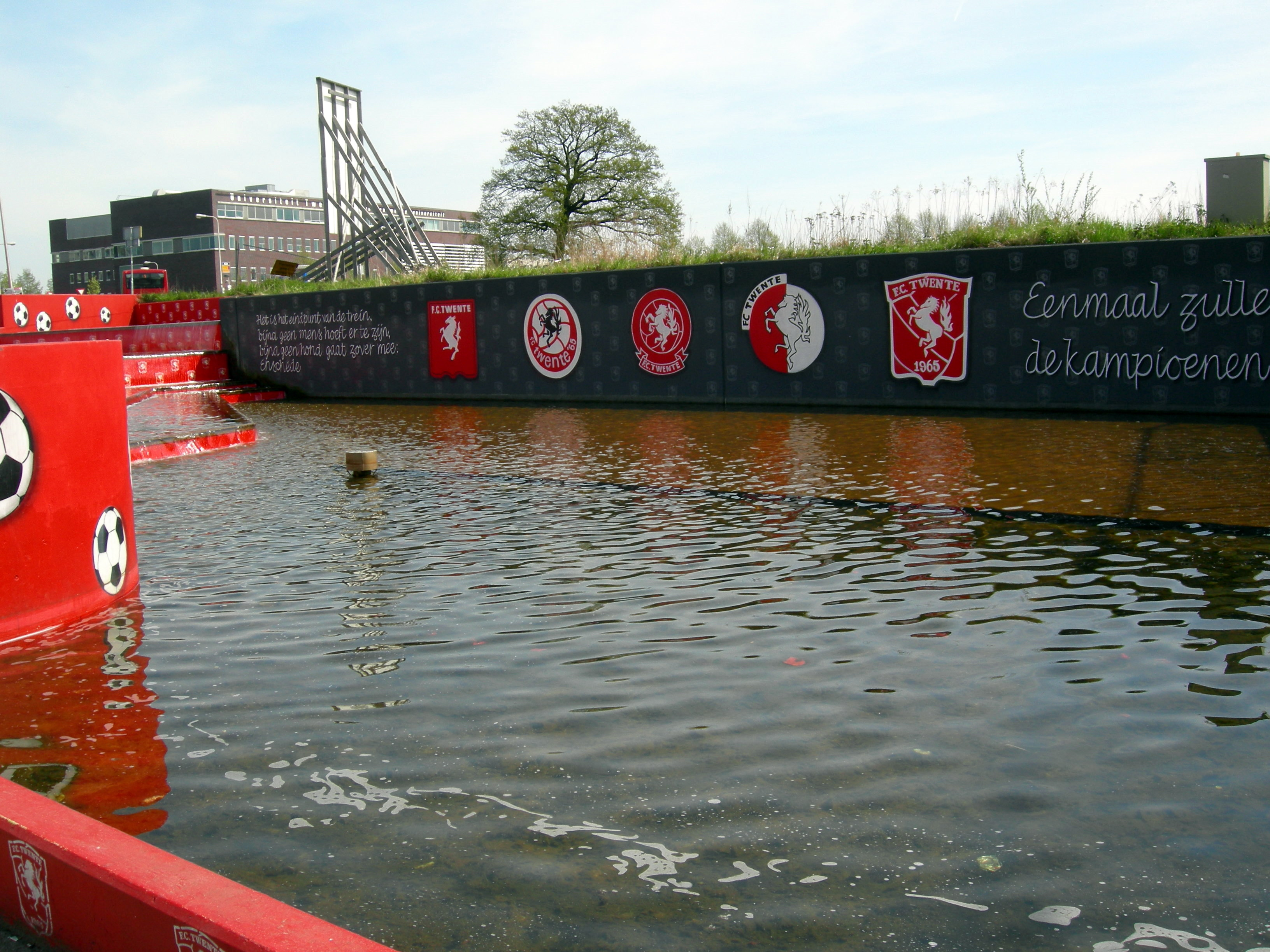 Club logo's through the history of FC Twente in graffiti near the stadium and the train station Enschede Drienerlo.